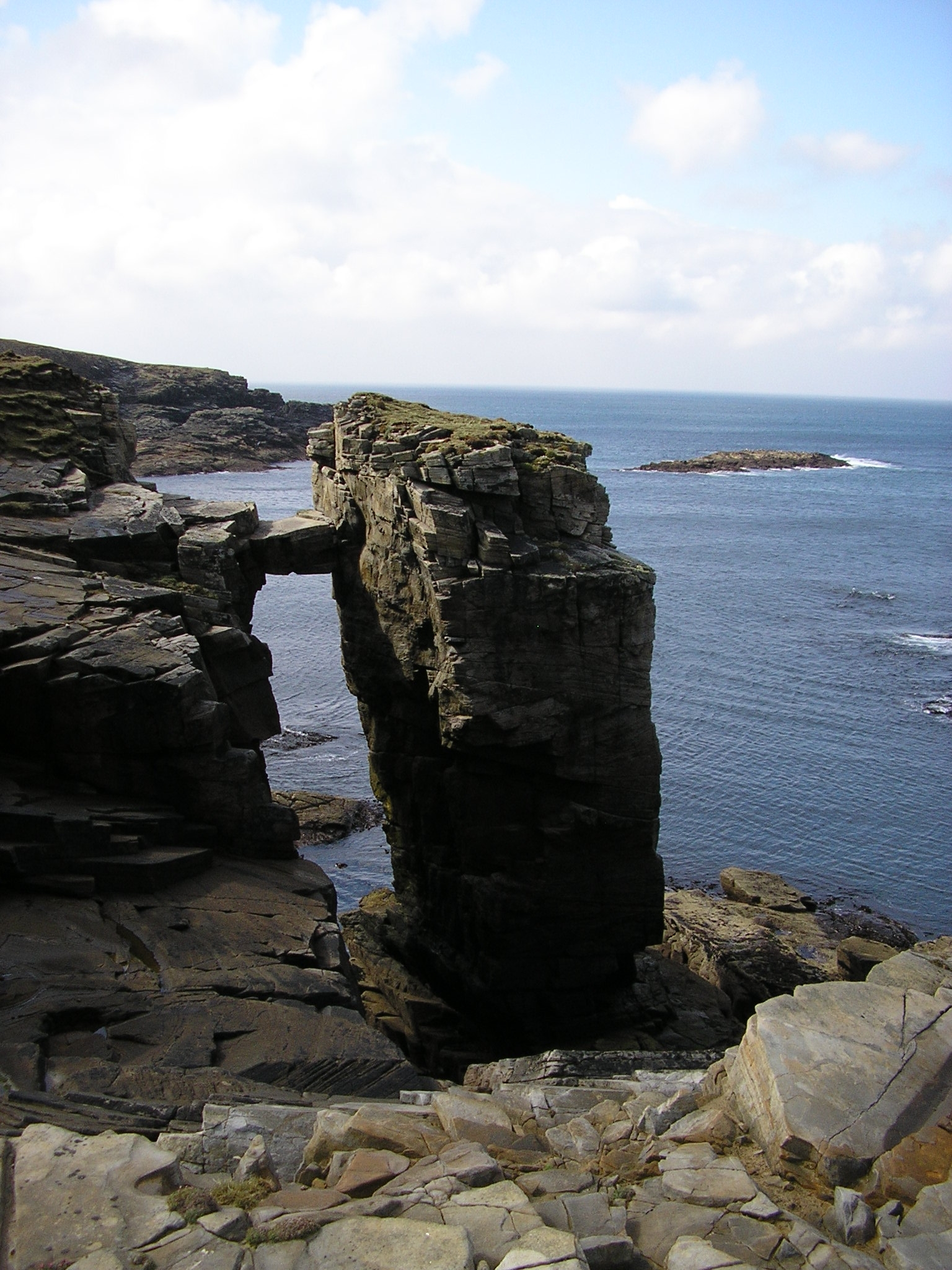 Nearly formed sea stack, only small bridge remaining of orginal arch in Yesnaby Sandstone, Yesnaby, Mainland, Orkney